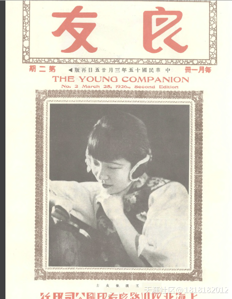 Wang Hanlun (王汉伦) (1903-1978) on cover of Liangyou pictorial, issue #2